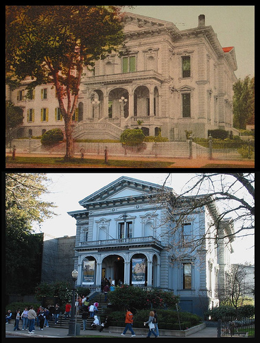 The Great Postcard Hunt - Crocker Art Museum, Sacramento CA Author: Stuart L Green